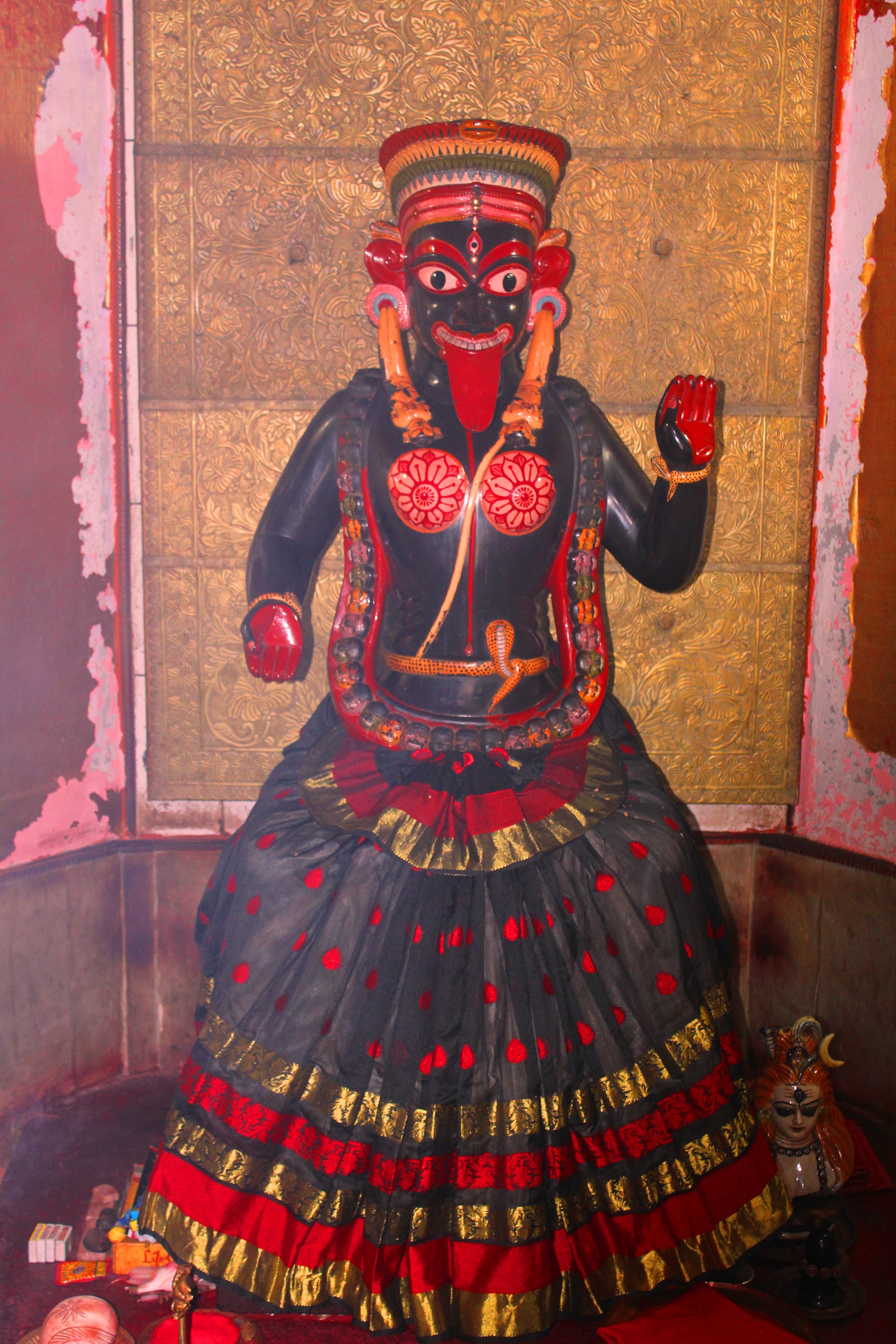 Idol of Kali of Akalipur Kali temple in Birbhum district